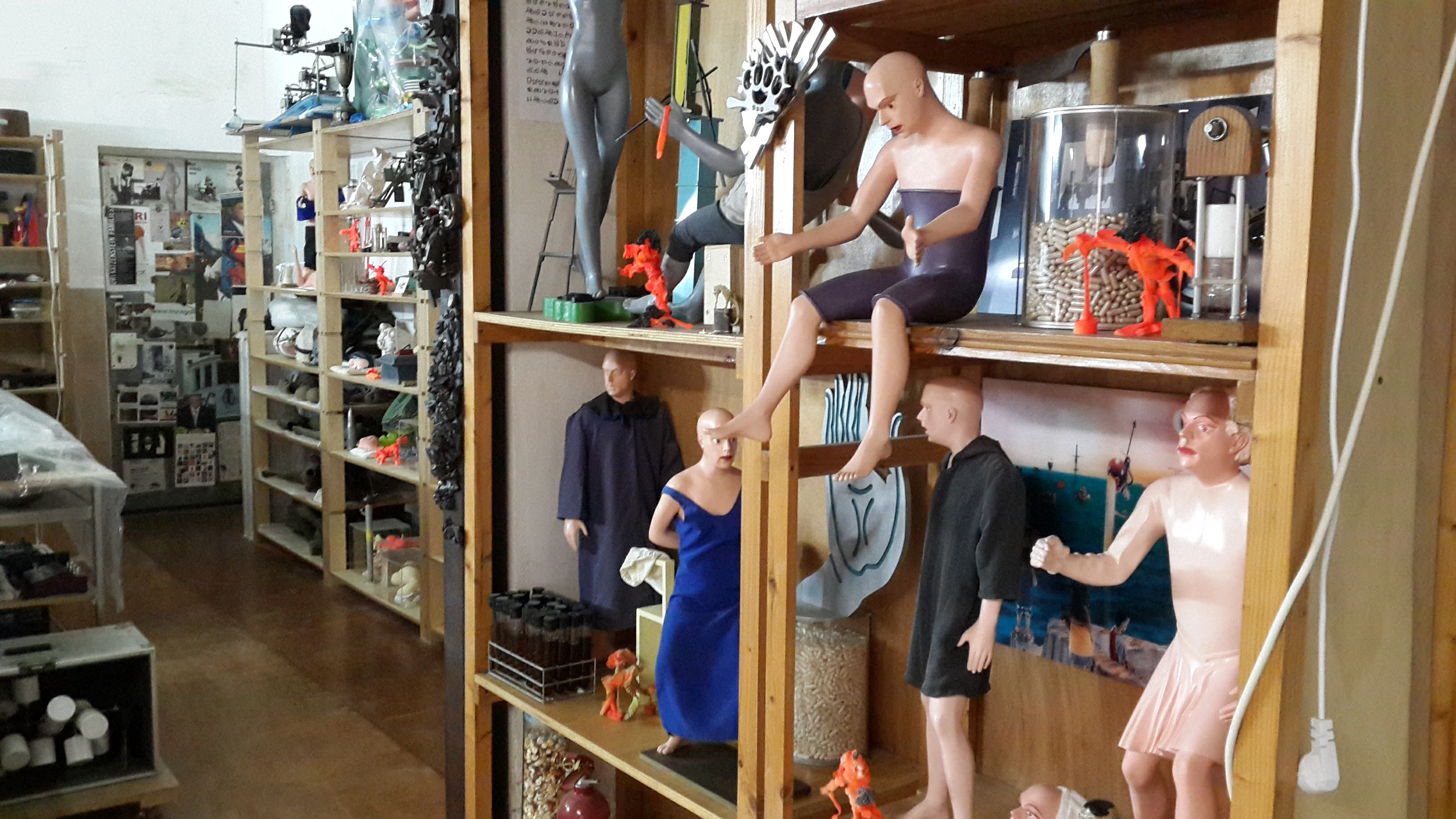 Works by Uri Katzenstein at his studio in Tel Aviv, 14 April 2017.